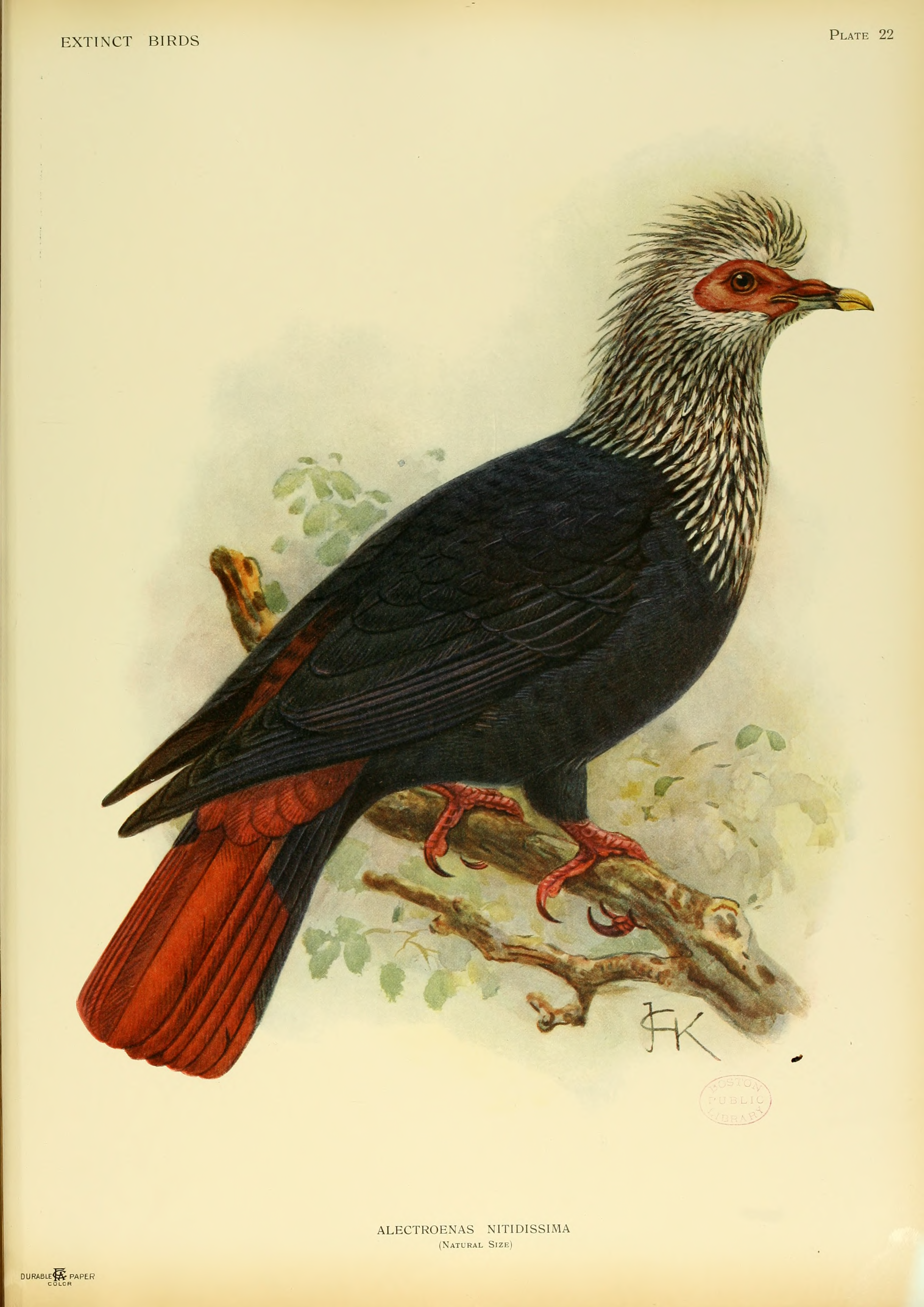 The Mauritius Blue Pigeon or Pigeon Hollandais (Alectroenas nitidissima[1]) is an extinct species of pigeon formerly endemic to Mauritius.